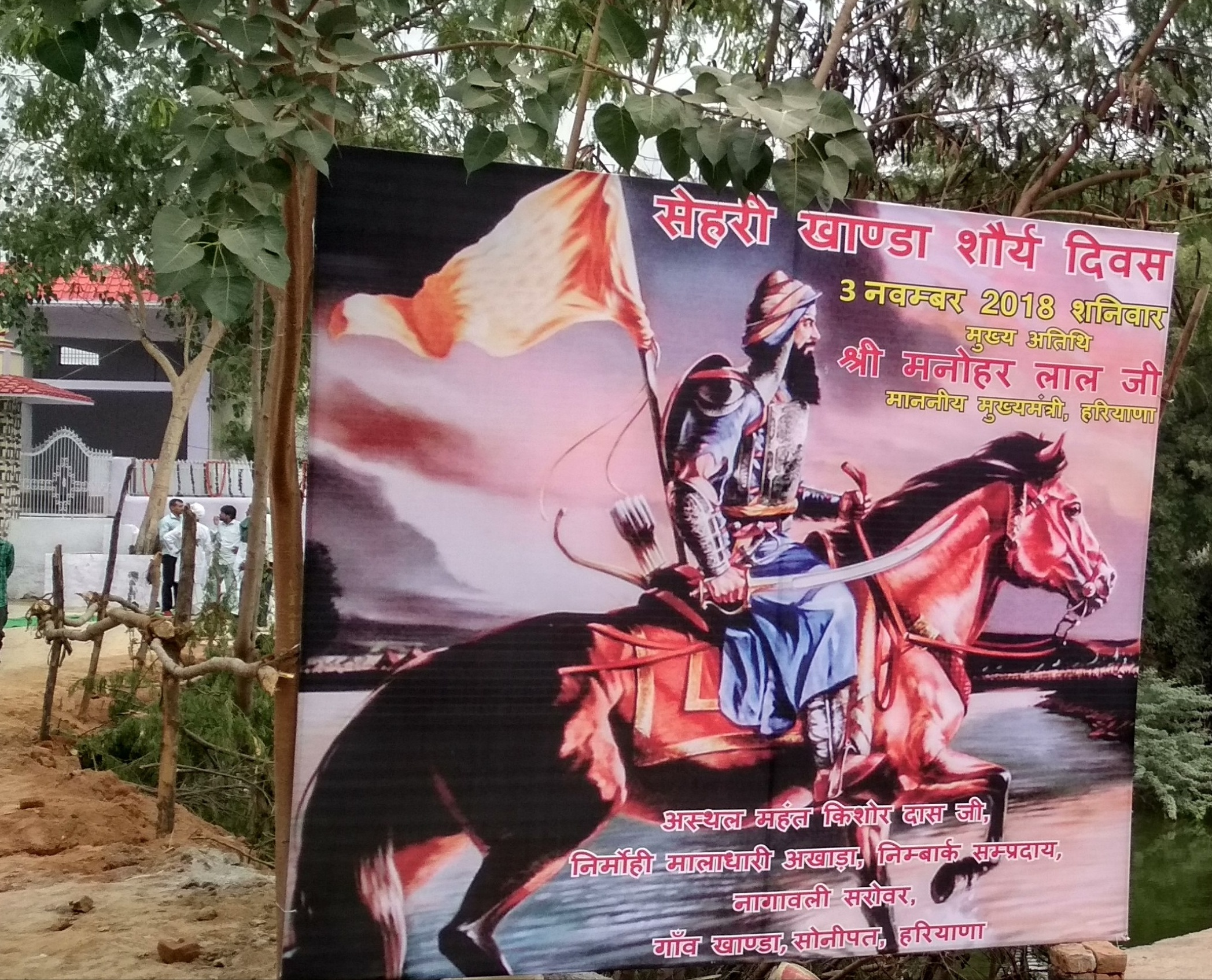 Diwas